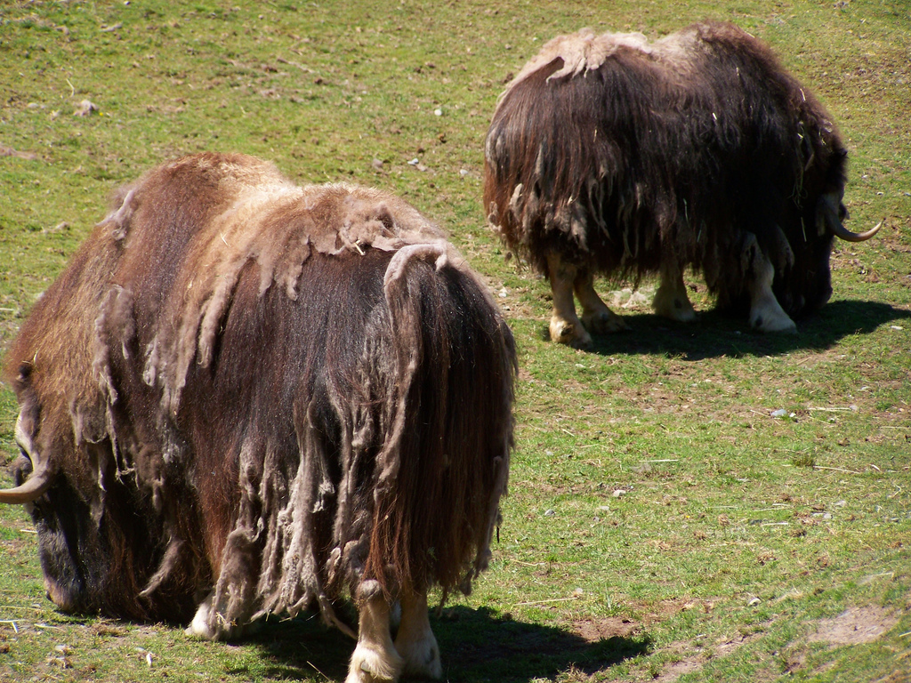 Muskox at the Point Defiance Zoo in Tacoma, WA